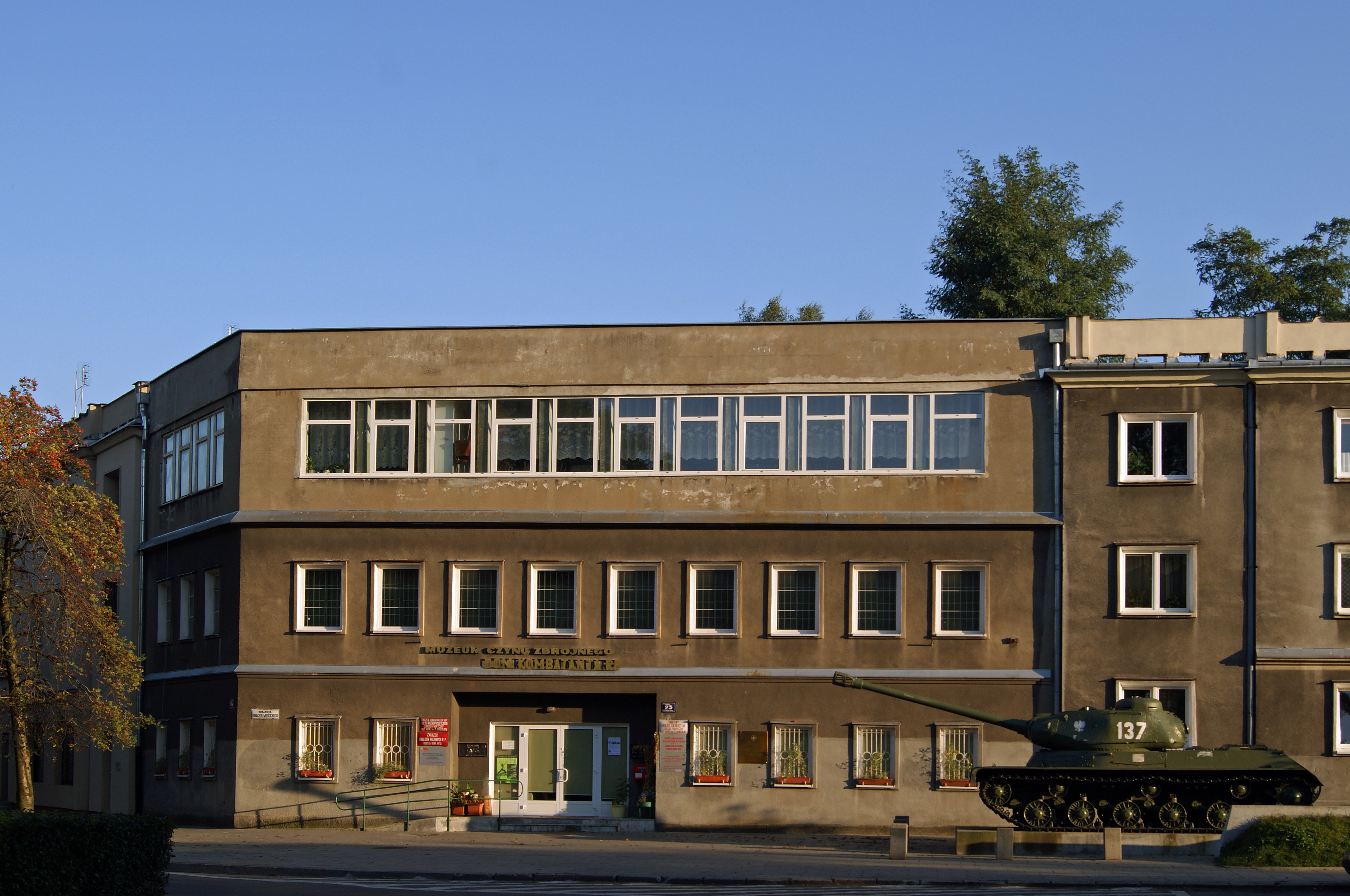 Museum of Armed Deed , 23,os. Gorali, Nowa Huta, Krakow,Poland